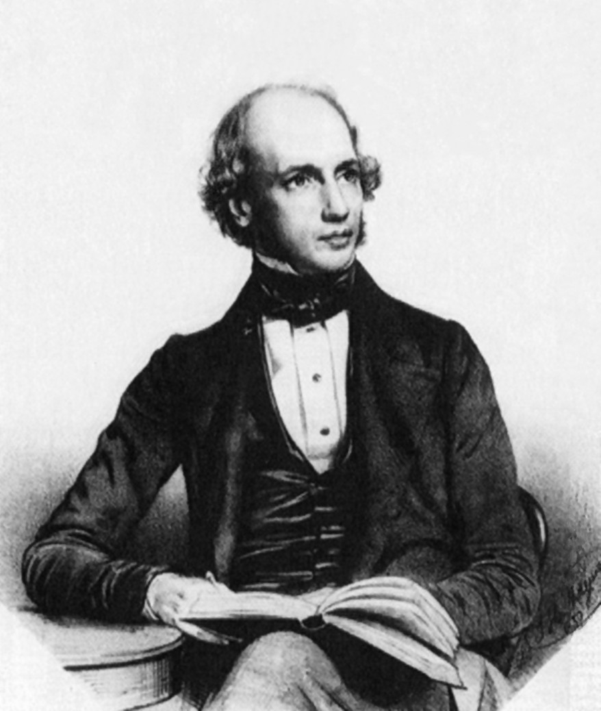 photograph of a lithographic portrait of William Benjamin Carpenter